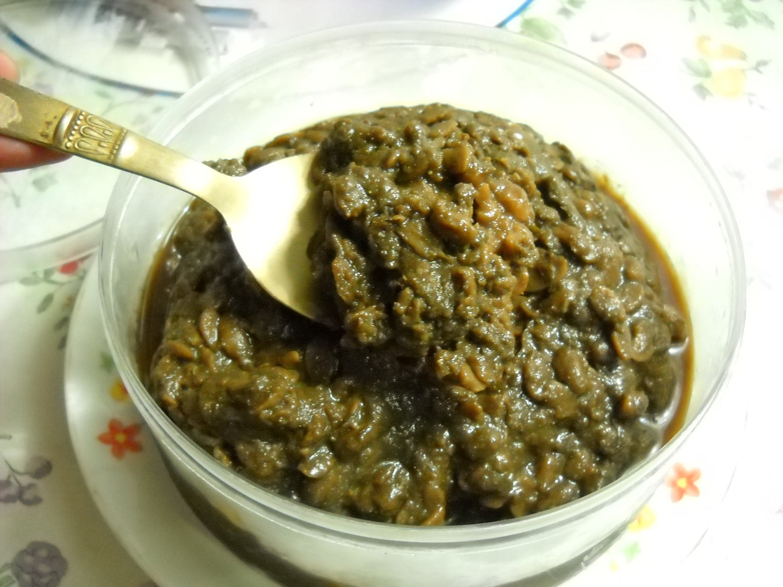 Theu-chiong, kind of Douchi from Bangka